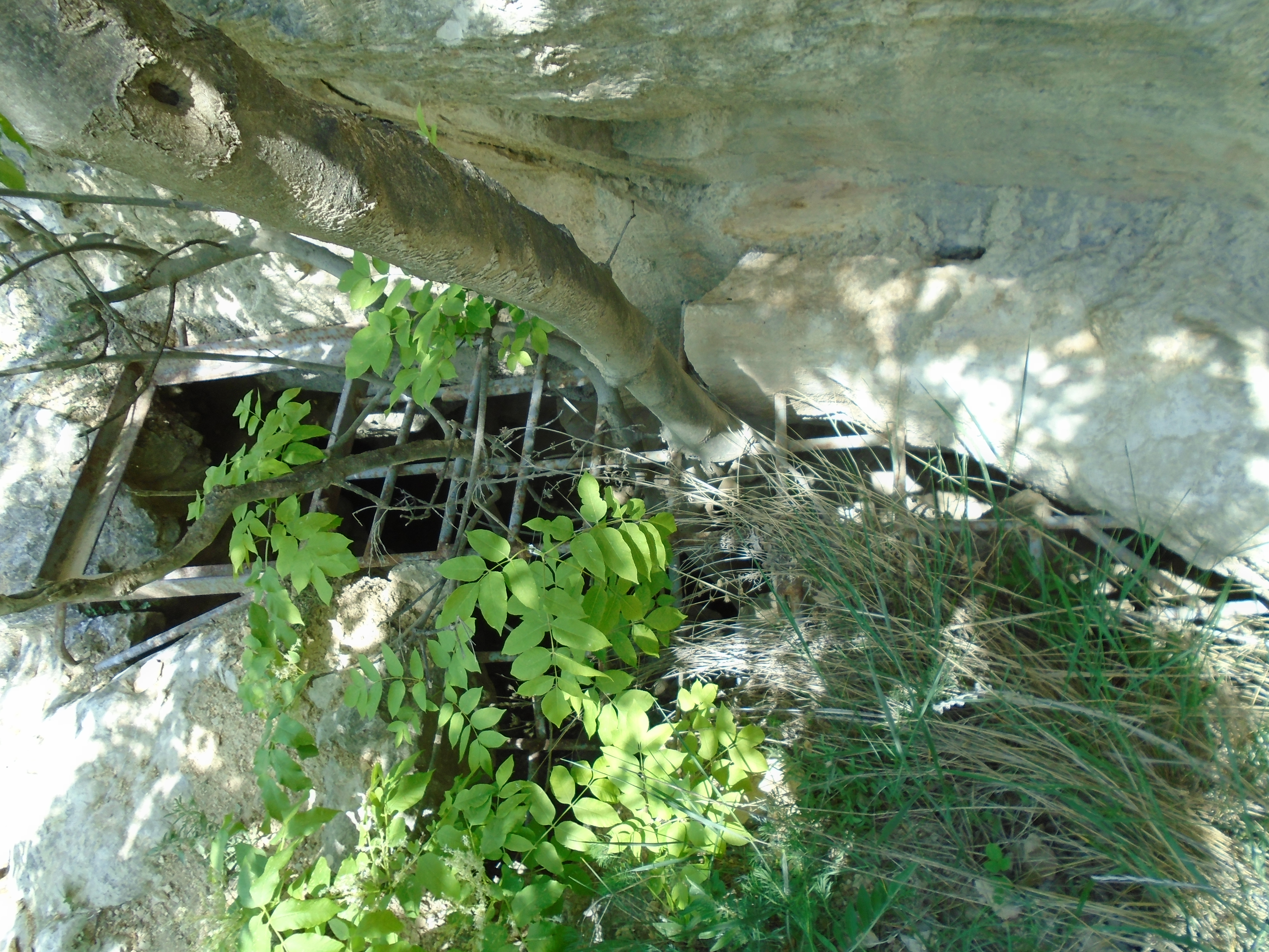 Entrance of Keleti quarry No 6 Cave.